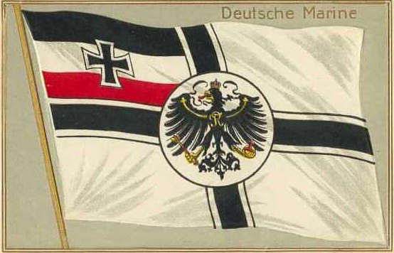 Contemporary german postcard, pre 1903